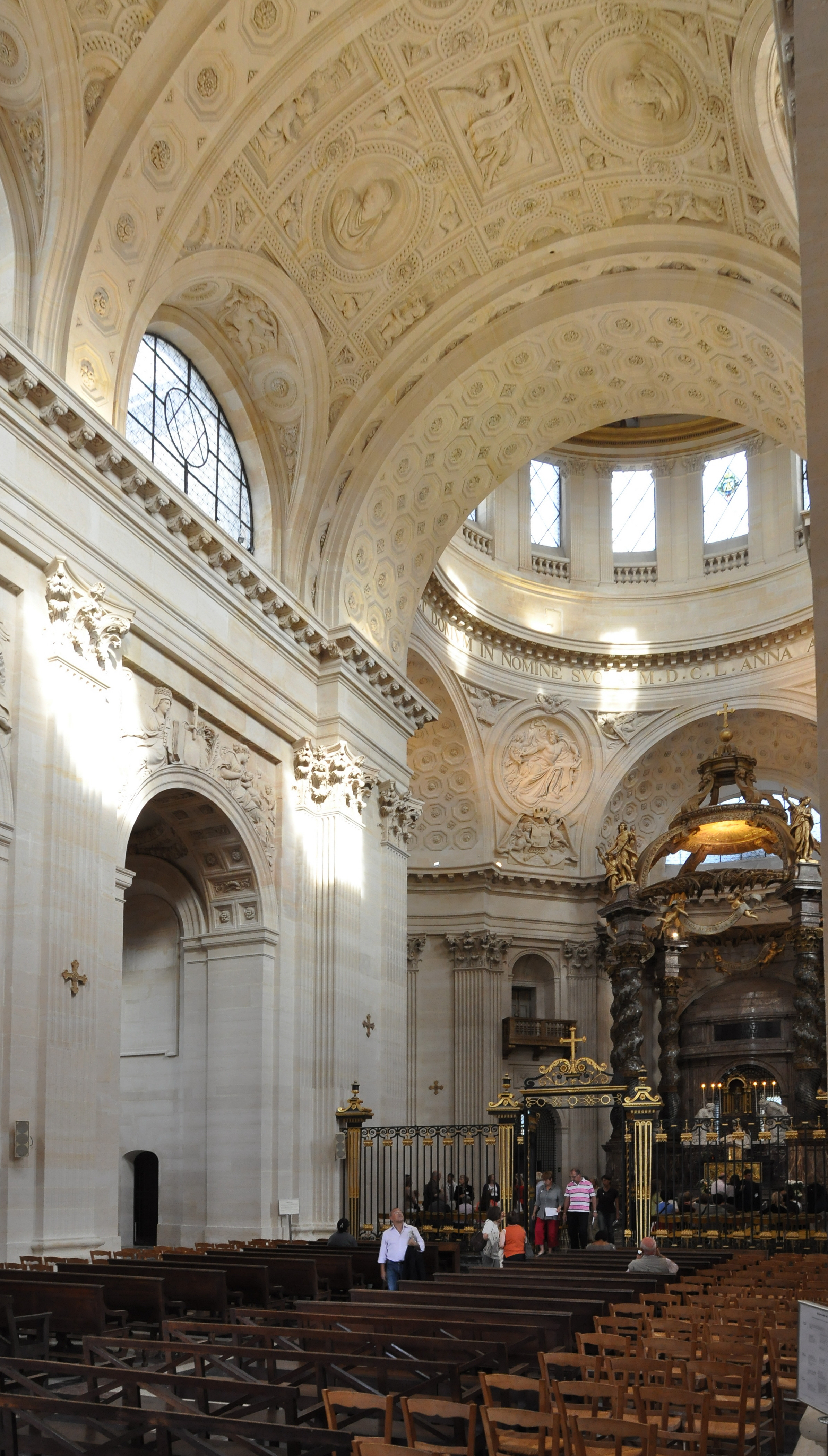 Interior of the church of Val-de-Grâce in the 5th arrondissement of Paris in France.